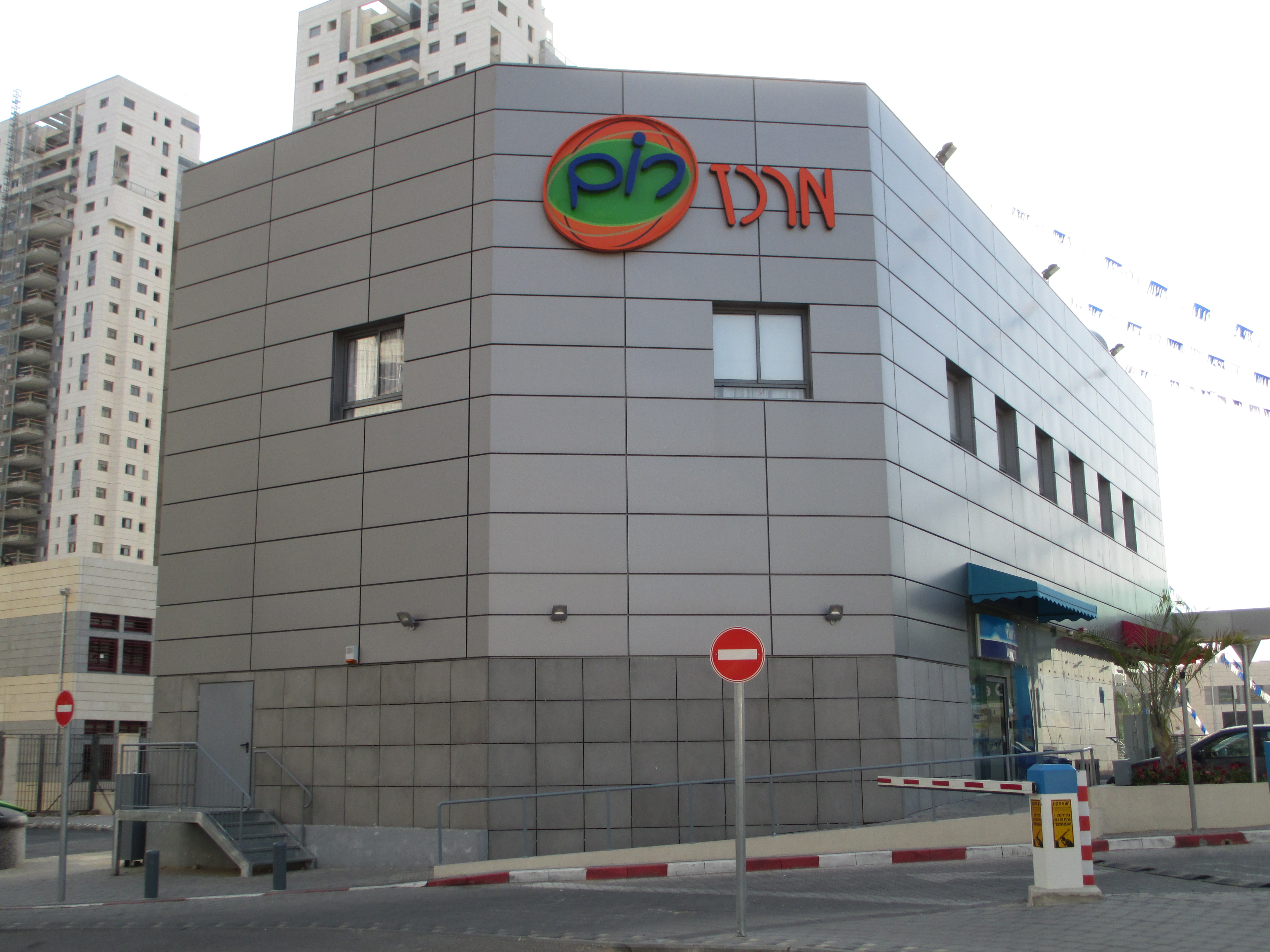 "rom" commercial center in petah tikva, israel מרכז מסחרי "רום" בפתח תקווה